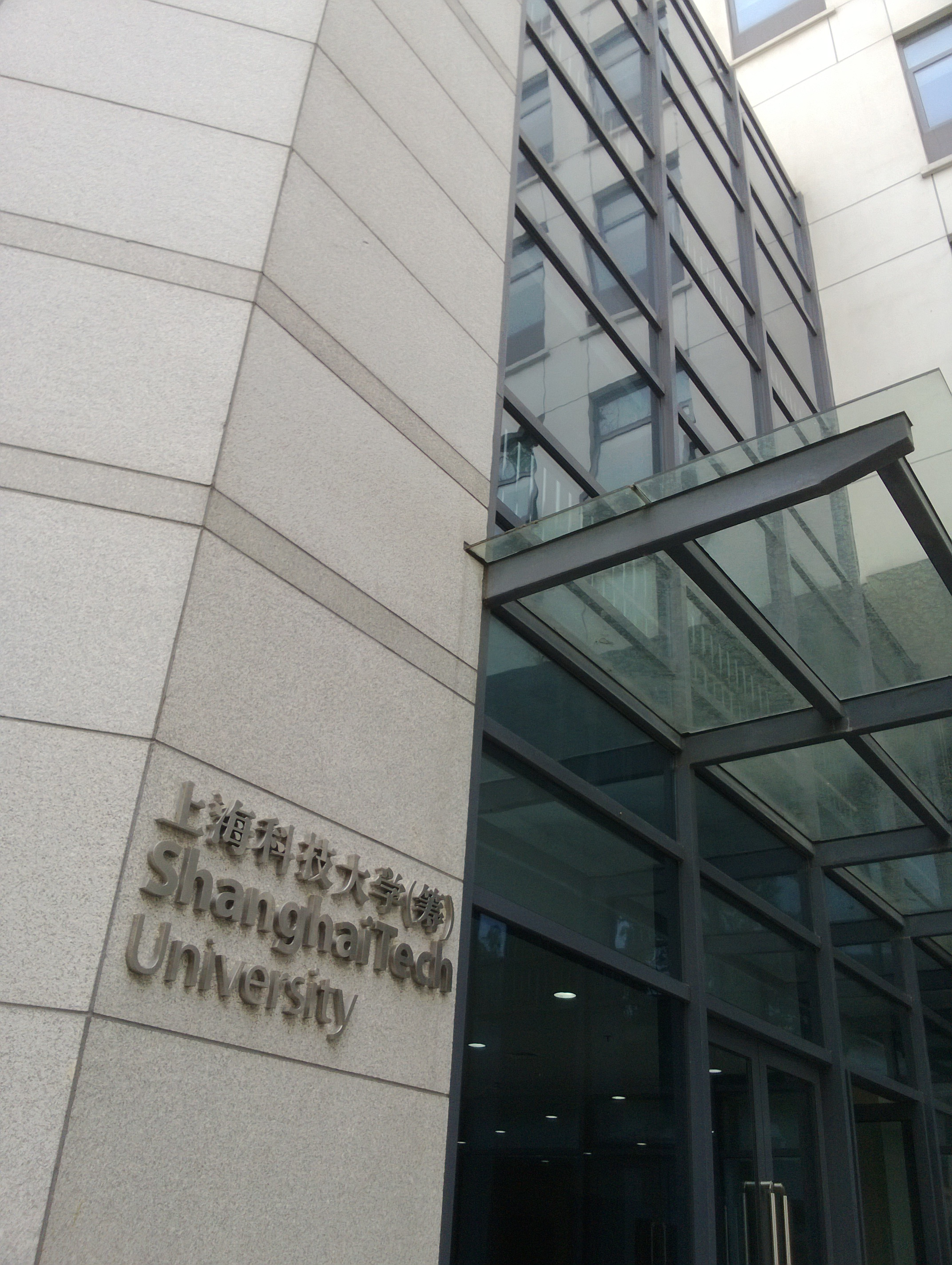 The facade of Yueyang Road Campus of ShanghaiTech University inside CAS Shanghai Branch.